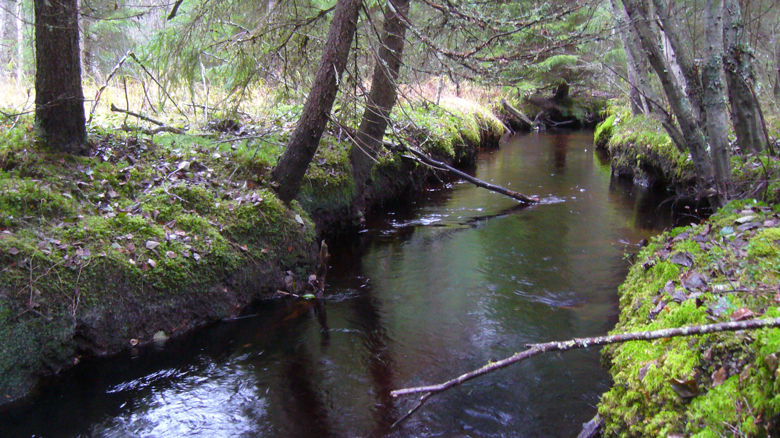 Mustaluoma (also known as Kovasluoma) river in southwest Jalasjärvi, Finland.